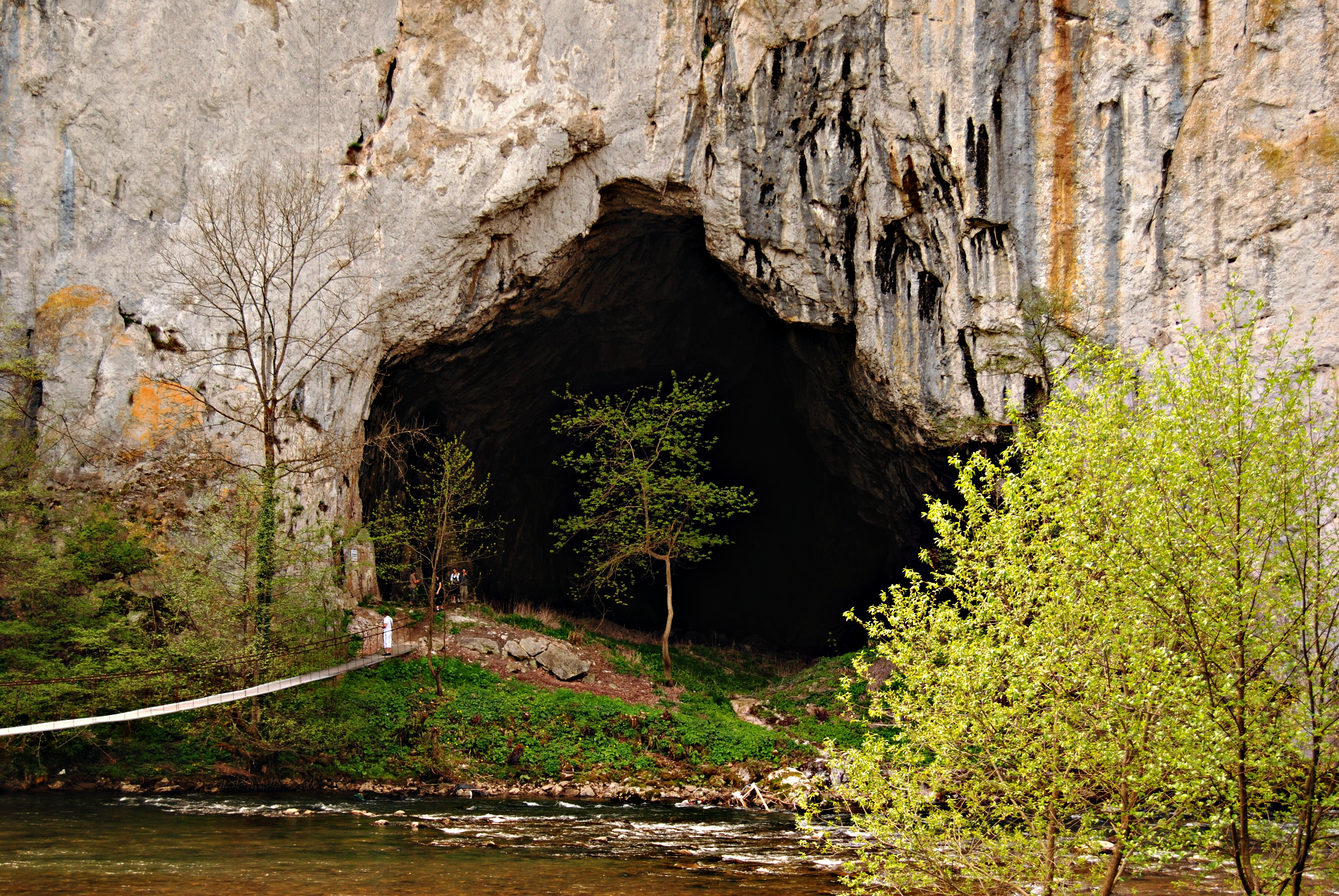 Peştera Unguru Mare